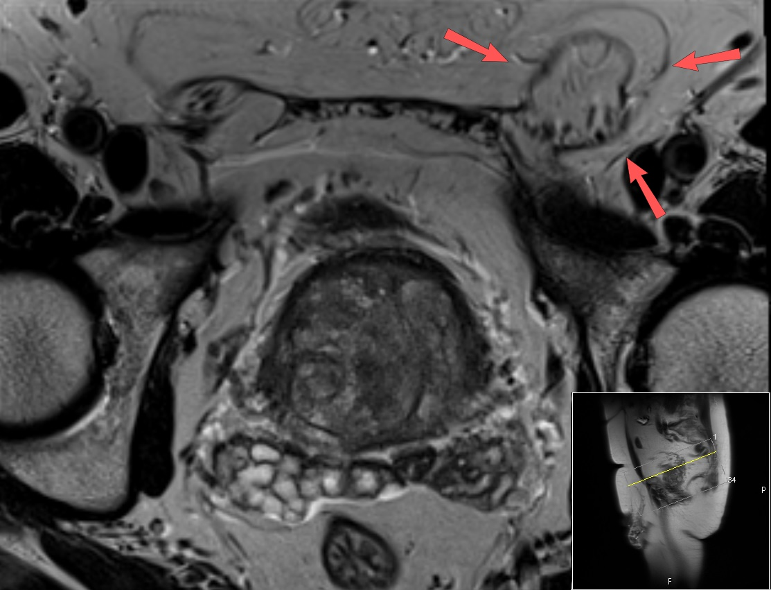 T2 weighted MRI of a 67 year old man who had pain in his left groin. It shows a left-sided indirect inguinal hernia (right side in image) containing fat.